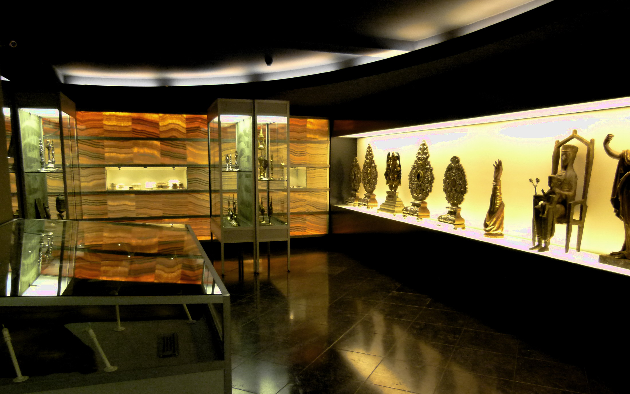 Treasury of the Basilica of Our Lady, Maastricht, the Netherlands. View of Southern chamber.